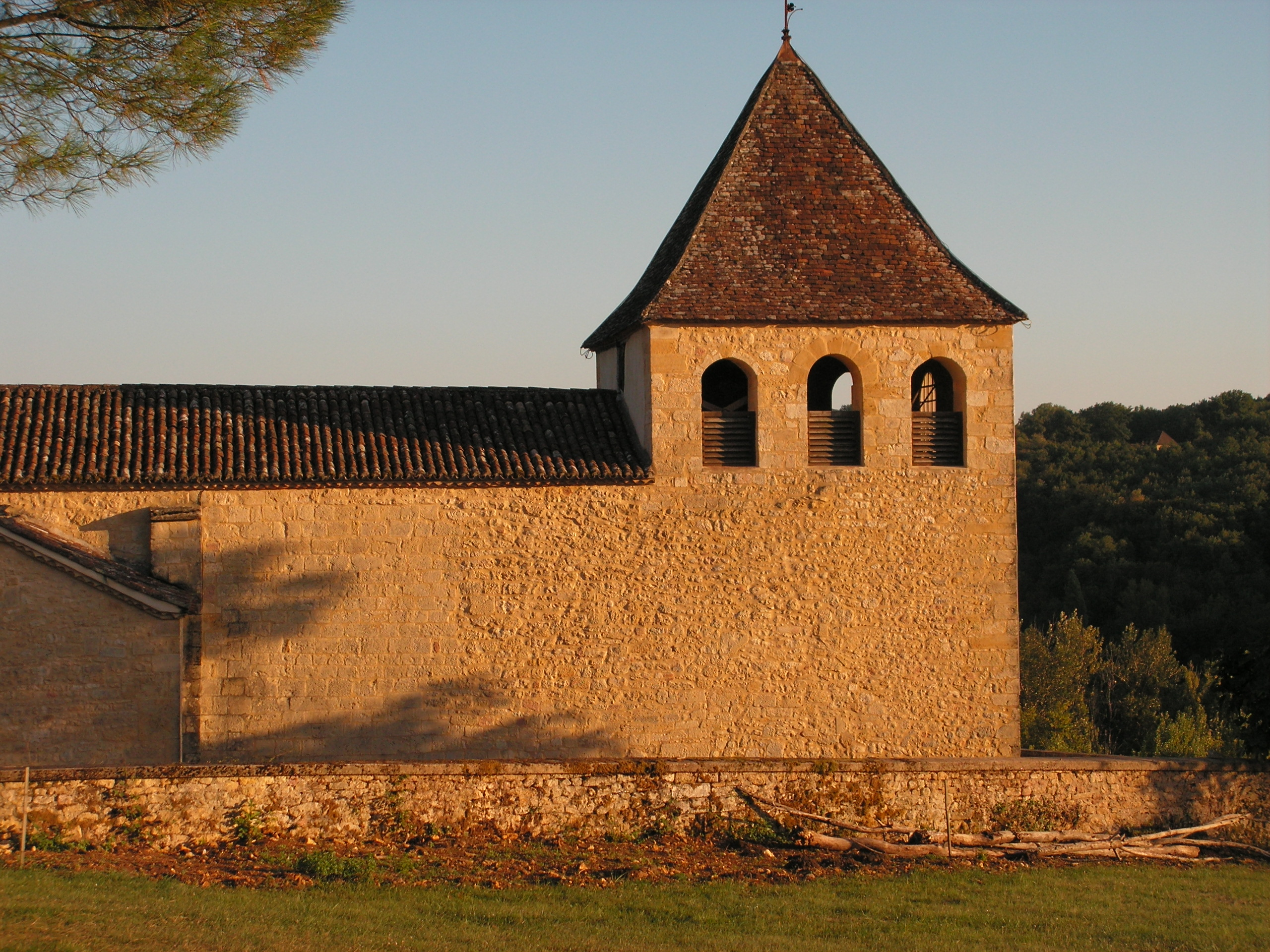 Calès (Dordogne)